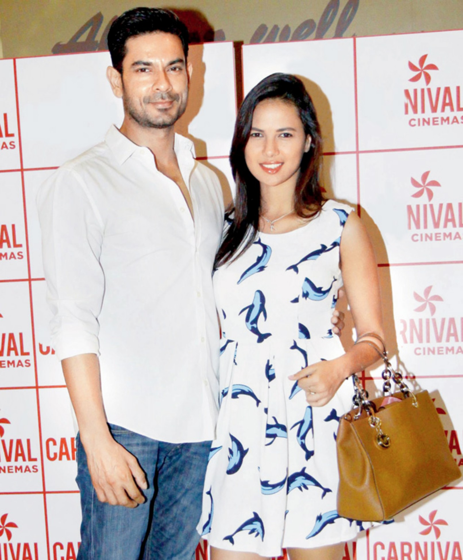 Keith Sequeira and Rochelle Rao at Special screening of 'Calendar Girls' at Carnival Cinemas